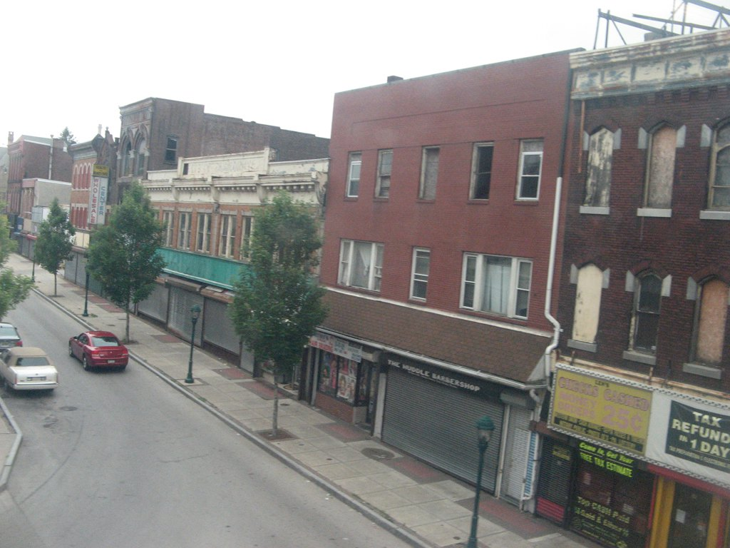 Avenue of the States in Chester PA, photograph taken from the SEPTA train.